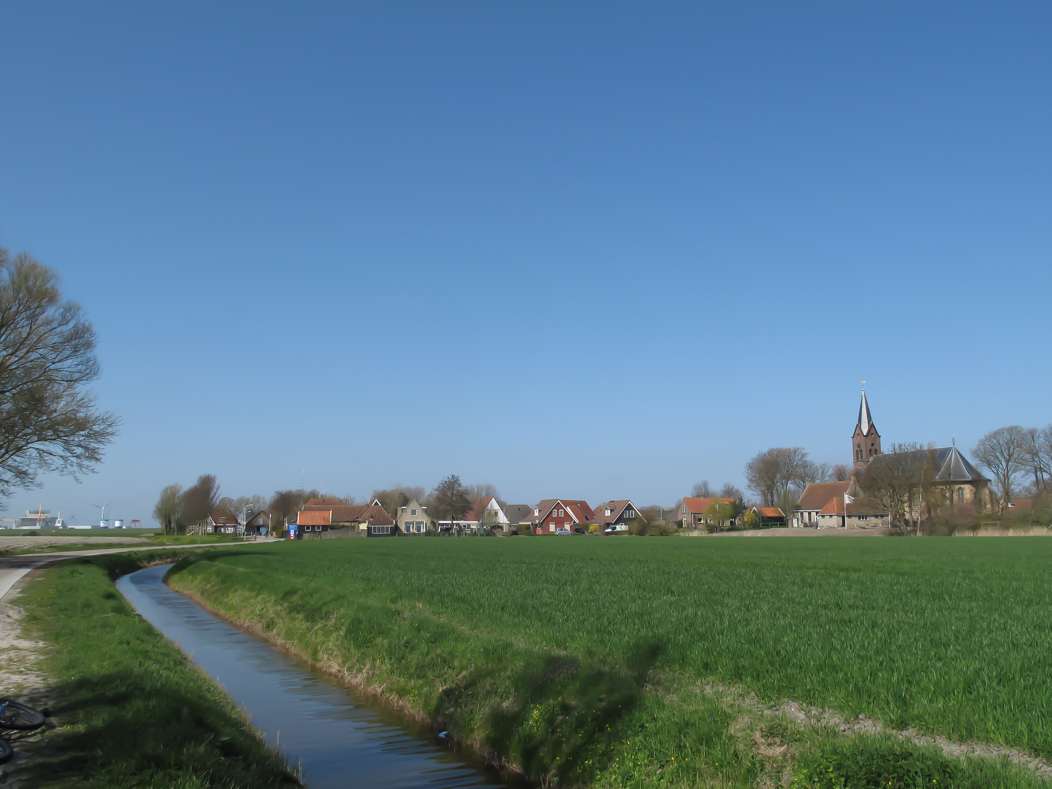 Wijnaldum, view to the village